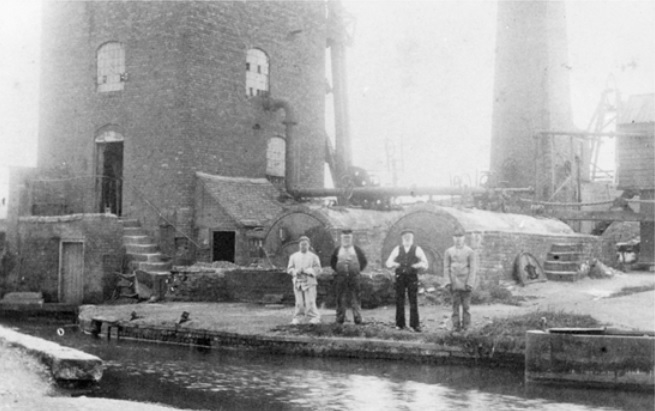 The image shows Steven's Pit, which supplied water to the Donnington Wood Canal until 1928, long after the mine had ceased operation. The canal is in the foreground, and one of the tub boats can be seen on the right. The image is undated, but has been variously dated as c.1900 or c.1920.